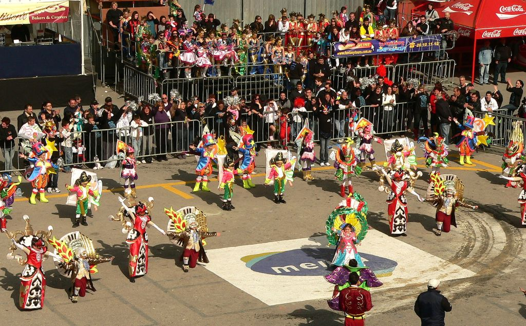 Valletta is the capital of Malta. Valletta is a traditional center of the Carnival You can use this images for free. But a link to the - I would be happy :)